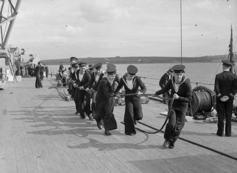 Sailors drag a rope attached to the main derrick in order to bring in a picket boats on the British battleship HMS Rodney.